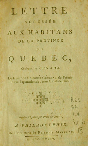 This is the cover page of a letter drafted by the First Continental Congress in October 1774, and distributed in the British Province of Quebec.